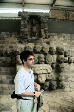 David Stuart at the museum at Copan